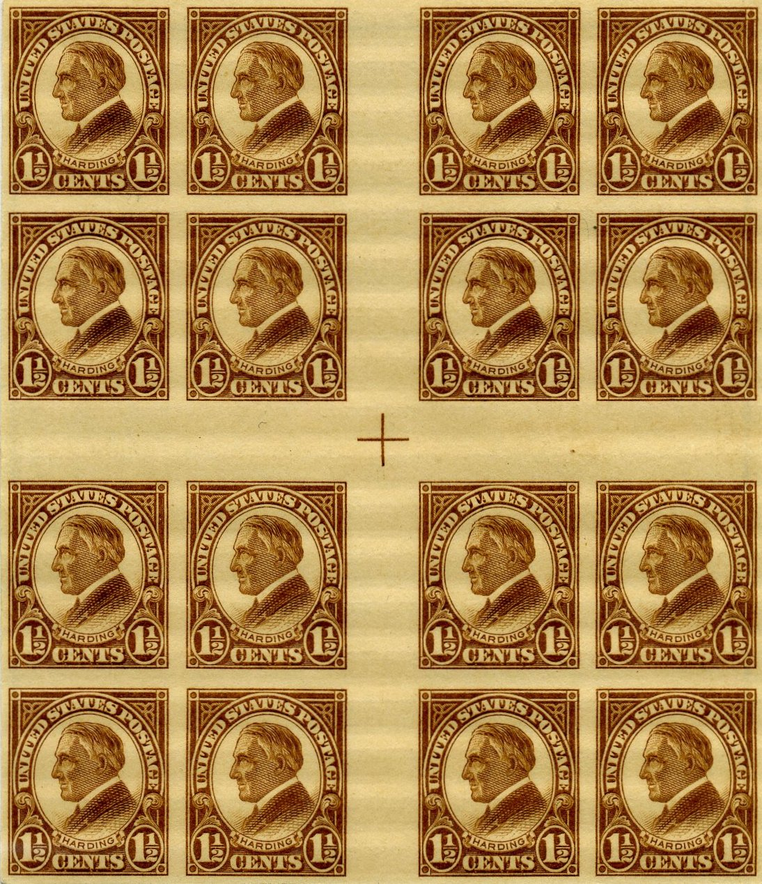 United States 1½ cent Harding memorial imperforate stamps of 1926 showing the center of the sheet with intersecting gutters